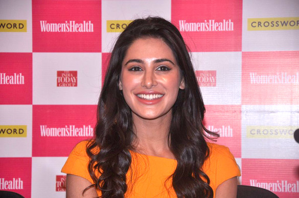 Nargis fakhri womens health launch